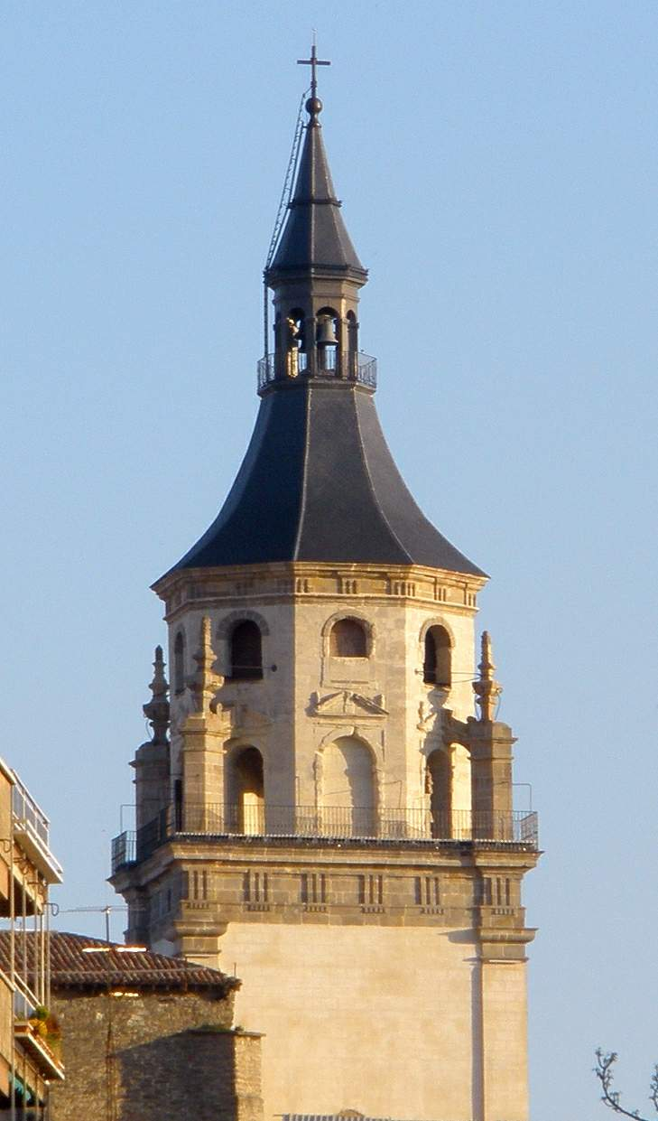 Torre de la Catedral de Santa María (Catedral Vieja) de Vitoria-Gasteiz